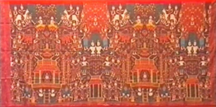 Cambodian silk pidan